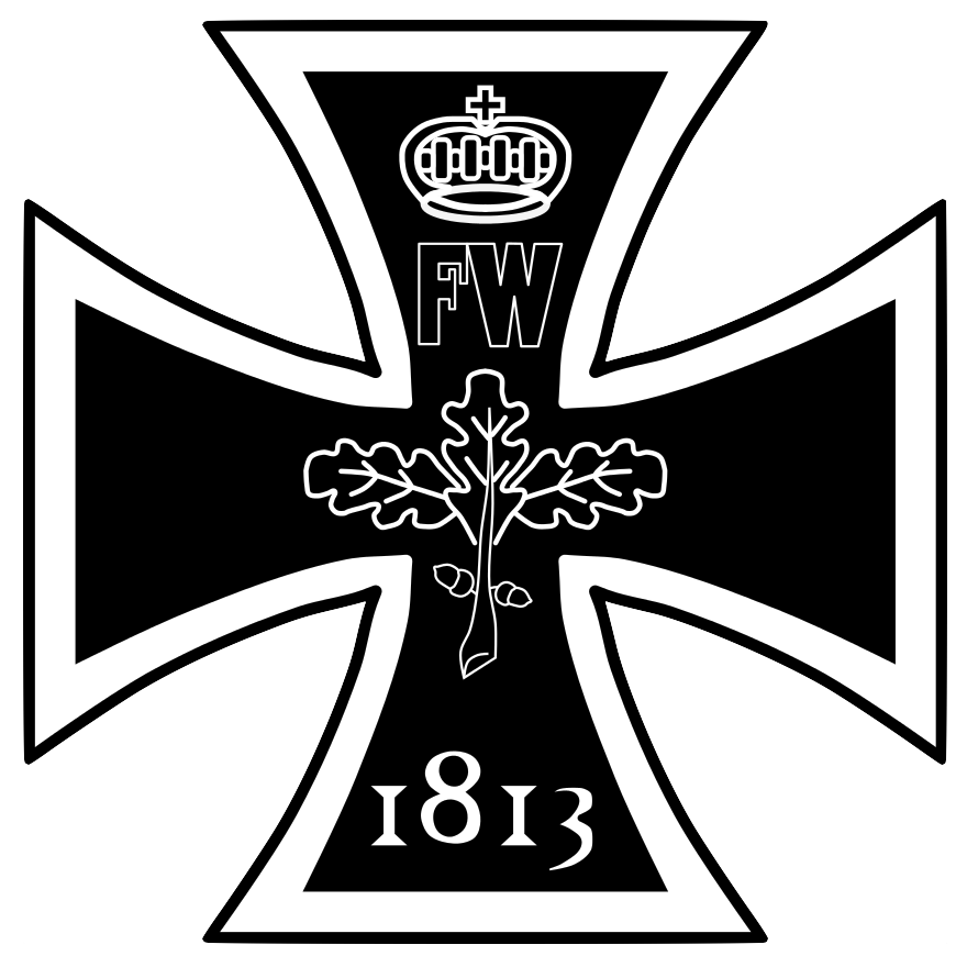 Iron Cross (1813)